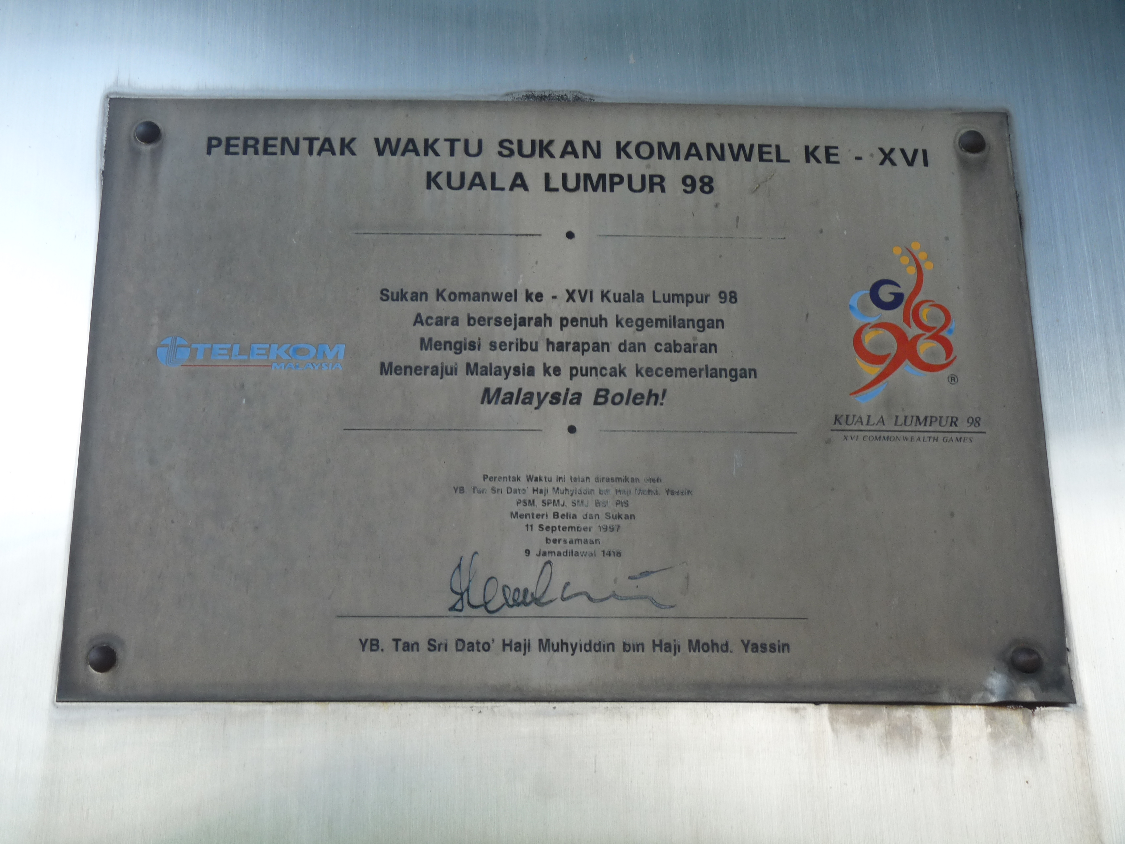 Malay information of the Kuala Lumpur Commonwealth Games Pacesetter sponsored by Telekom Malaysia. Errected in 1997 and located near Dataran Merdeka, Kuala Lumpur.